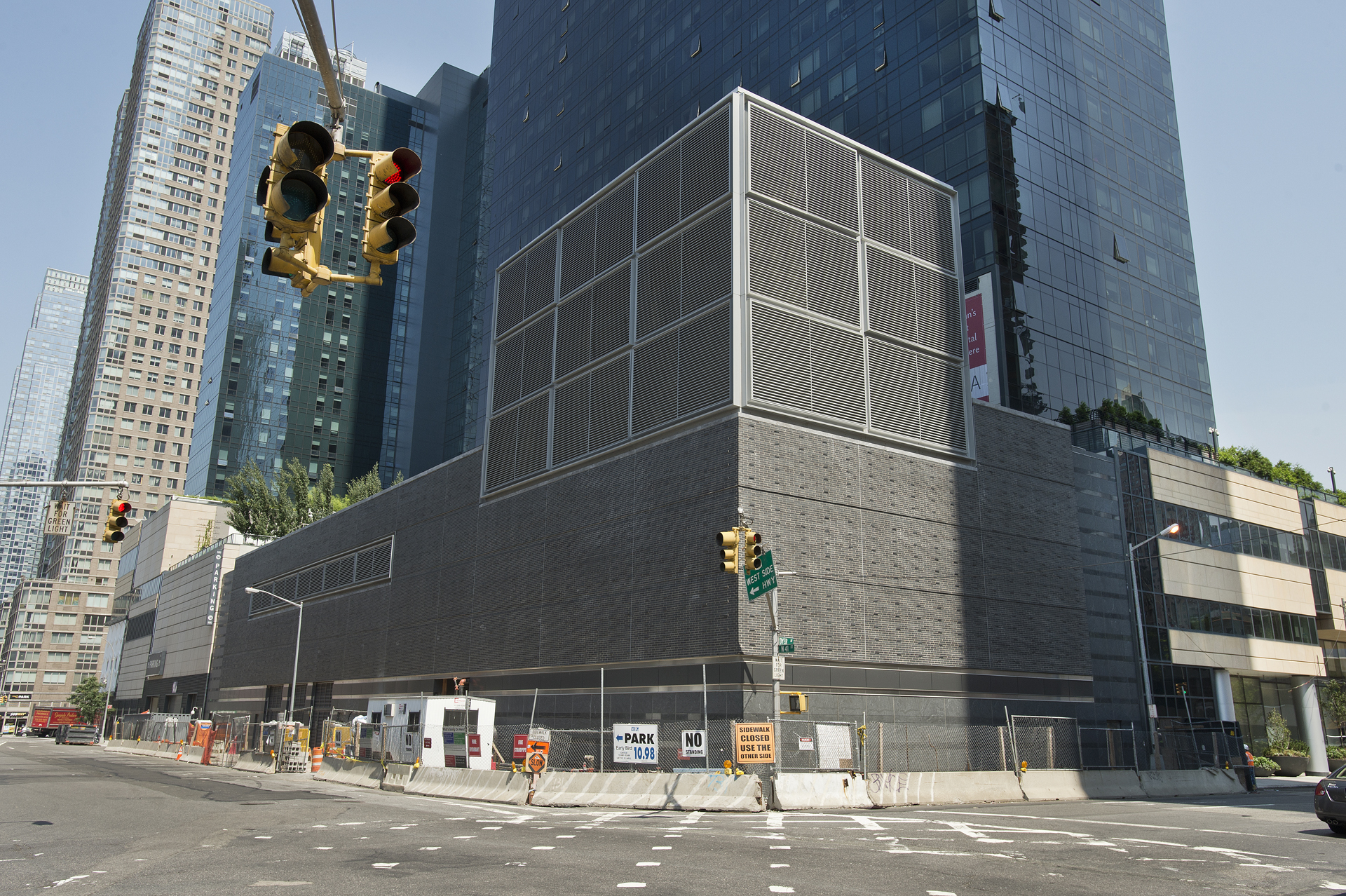 Progress continues on the extension of the No. 7 line to 34th Street and Eleventh Avenue in Manhattan. This photo shows construction progress as of June 2013. Photo: Metropolitan Transportation Authority / Patrick Cashin